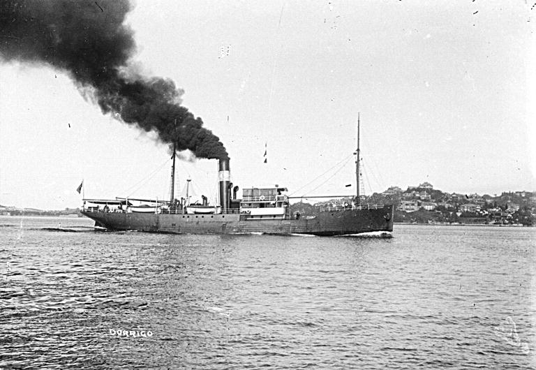 683 GRT passenger and cargo steamship Dorrigo. Smith's Dock of Middlesbrough built her in 1913 as Saint François for Cie. Navale de l'Océanie of Bordeaux. Langley Brothers of Sydney, NSW bought her in 1922 and renamed her Dorrigo. North Coast Steam Navigation Co acquired the ship when it took over Langley Bros in 1925. John Burke of Brisbane bought Dorrigo from North Coast Steam Navigation later in 1925. On 2 April 1926 en route from Sydney to Thursday Island she sank off Double Island Point, Queensland.